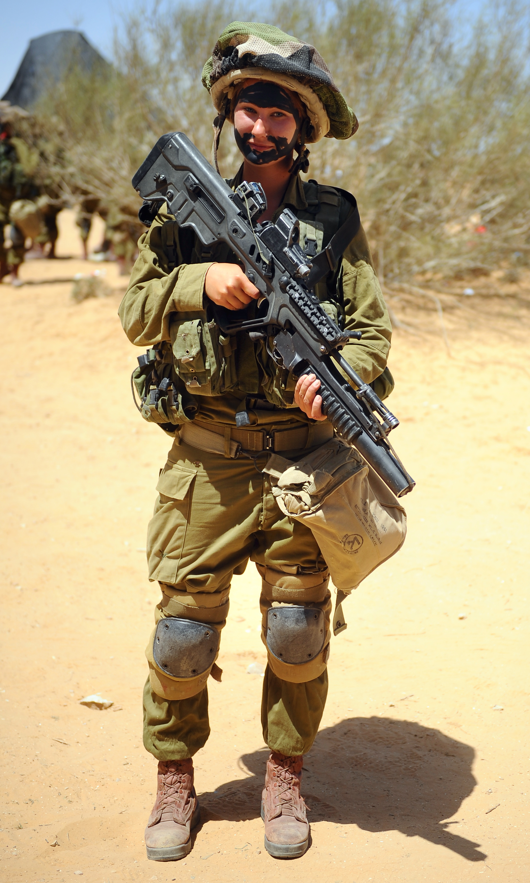 Soldiers of the Caracal co-ed battalion during a platoon exercise in southern Israel.